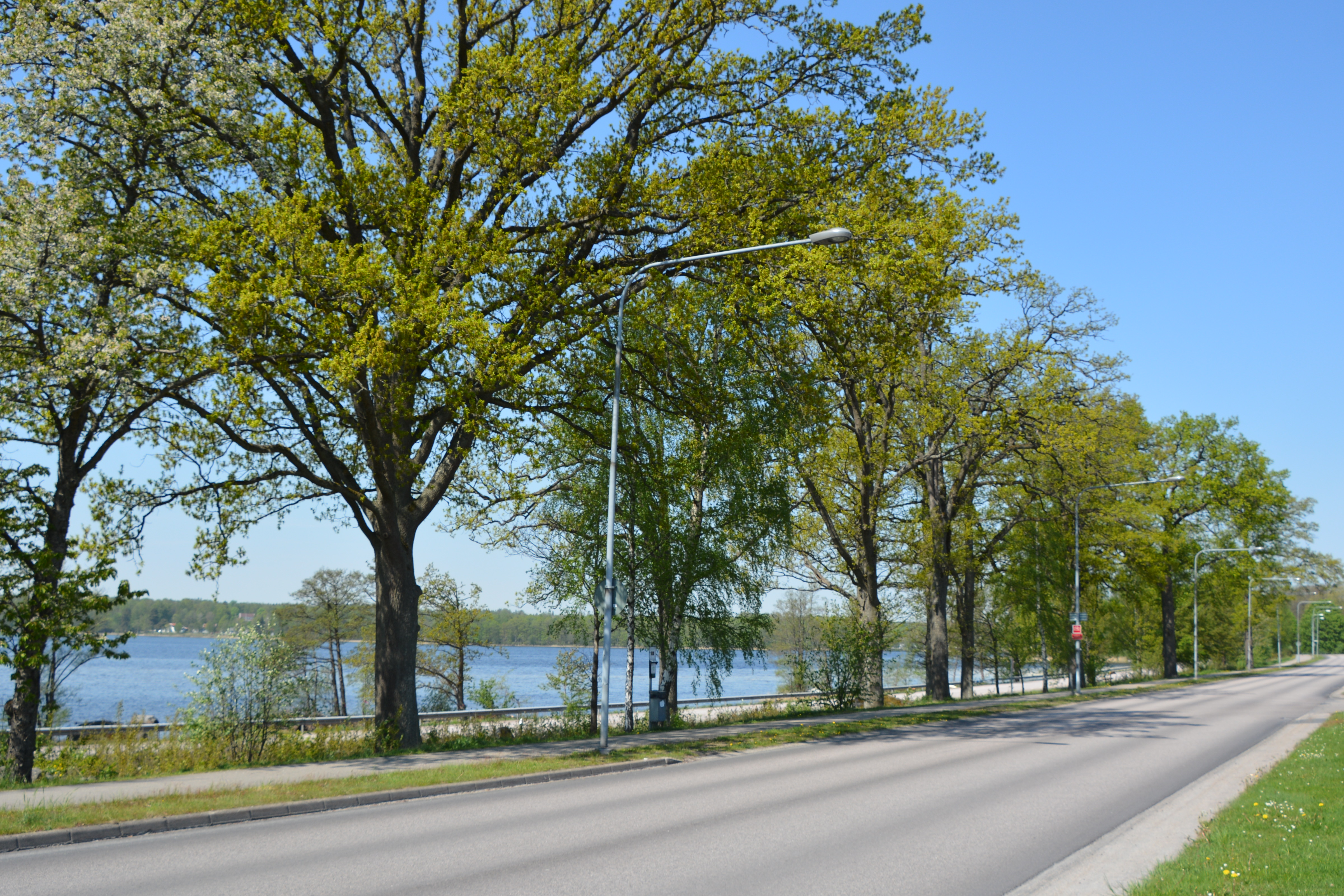 Lake Tiken, at Tingsryd